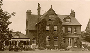 Image of the Stead Primary Care Hospital in its original state